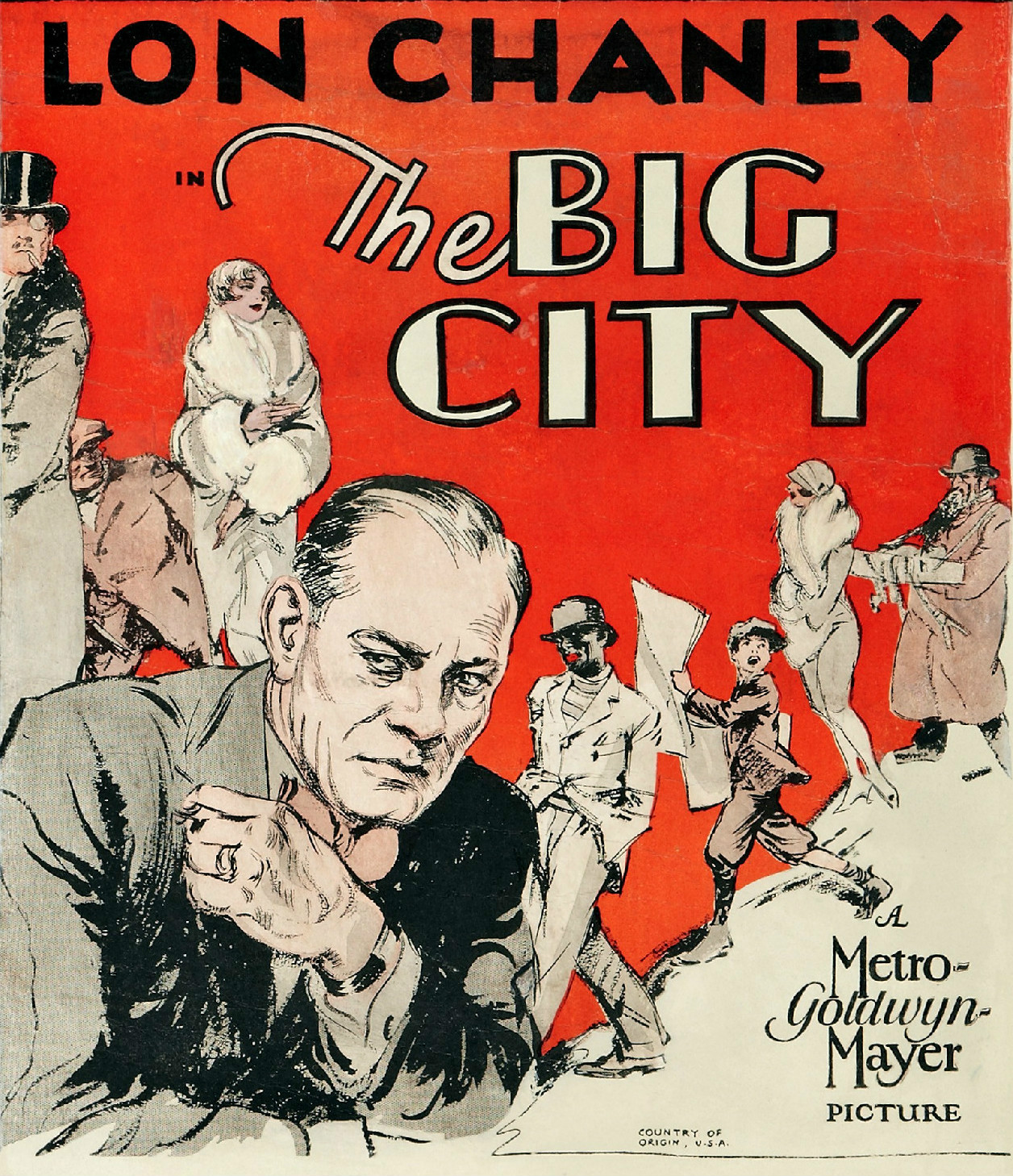 Window poster for the 1928 film The Big City. There are no copyright marks. At bottom is Country of origin USA.